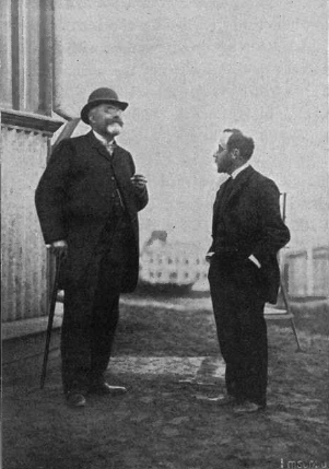 German meteorologists Richard Assmann and Arthur Berson